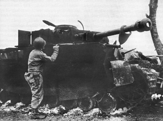 WRECKED GERMAN TANK SHOWING "BAZOOKA PANTS," a defense against rockets.